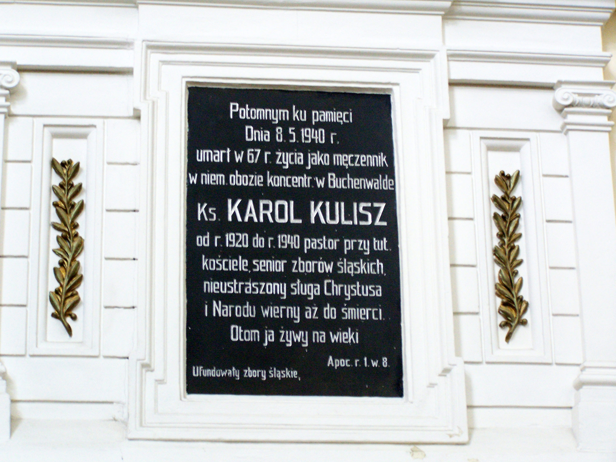 Memorial plaque to Pastor Karol Kulisz murdered by Nazis in the concentration camp, in Church of Jesus in Cieszyn, Poland